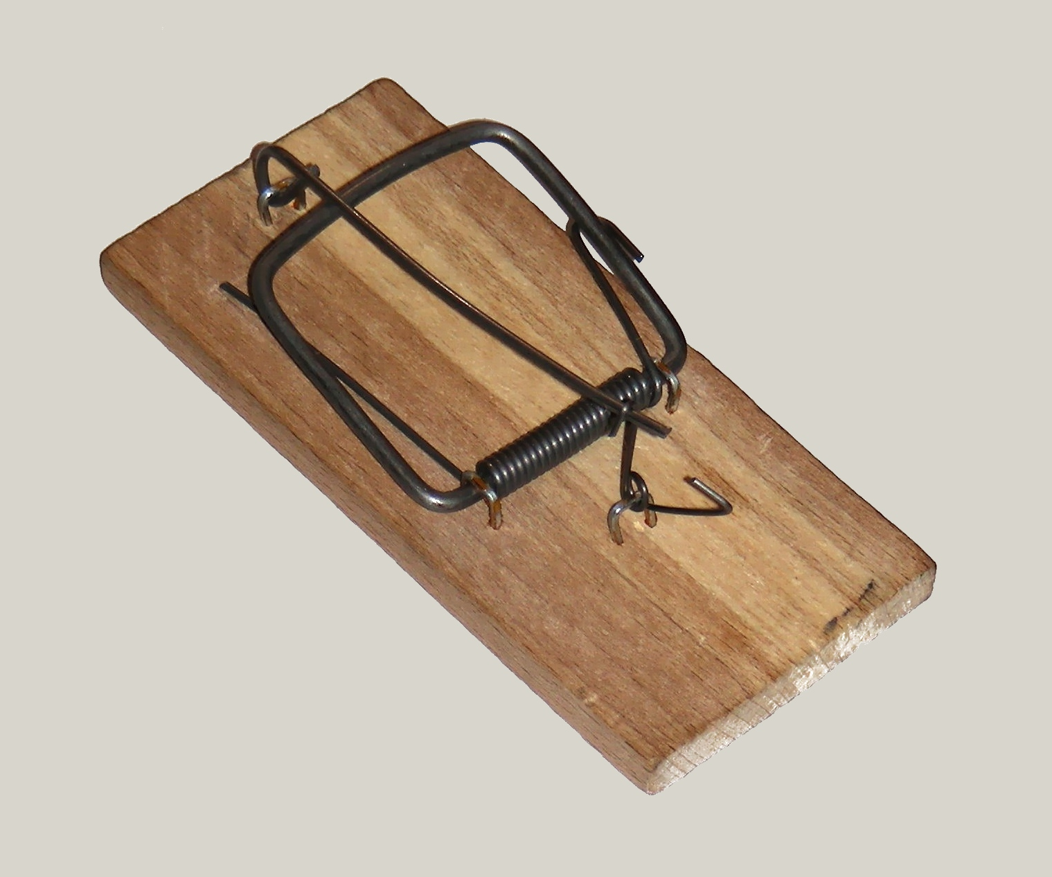 A photo of a mousetrap very similar to James Henry Atkinson's 1899 wood and wire 'little nipper' design.